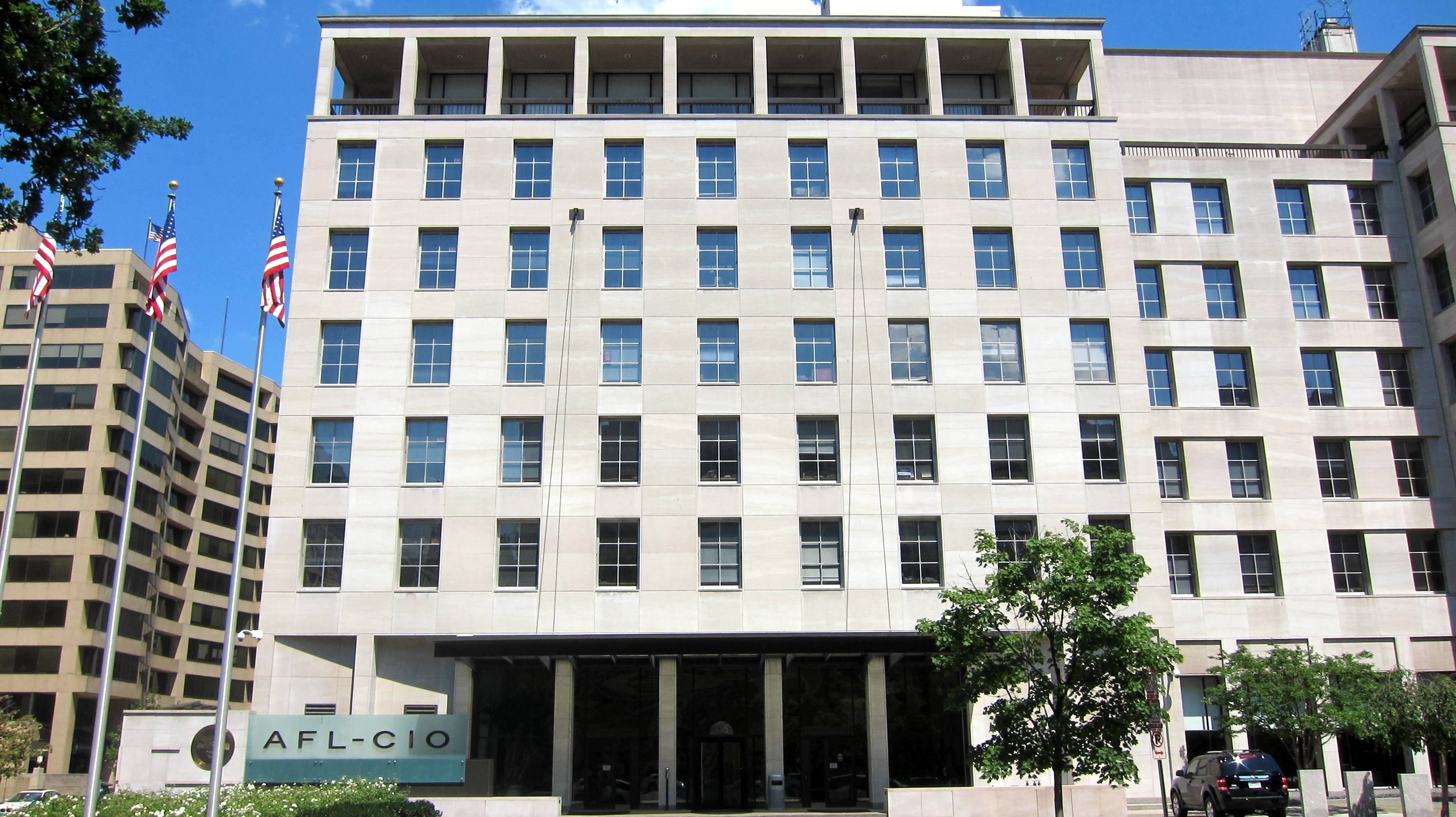 The AFL-CIO headquarters is located at 815 16th Street NW in downtown Washington, D.C. The modernist office building, constructed in 1956 and designed by Voorhees, Walker, Smith & Smith, is a contributing property to the Sixteenth Street Historic District.